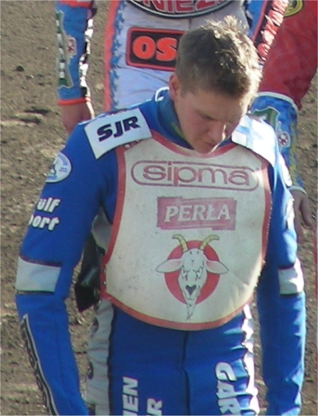 Kauko Nieminen speedway rider